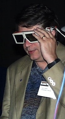 Larry Smarr viewing an ImmersaDesk demo at the Alliance '98 conference.